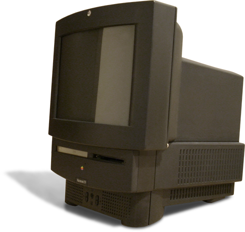 I took this picture of my Macintosh TV. The CRT, analog board, floppy drive, CD-ROM drive, hard drive and fan were from a Macintosh LC 520 that was donated to my collection by Brett Sanko. These are all identical parts in a Mac TV and LC 520.